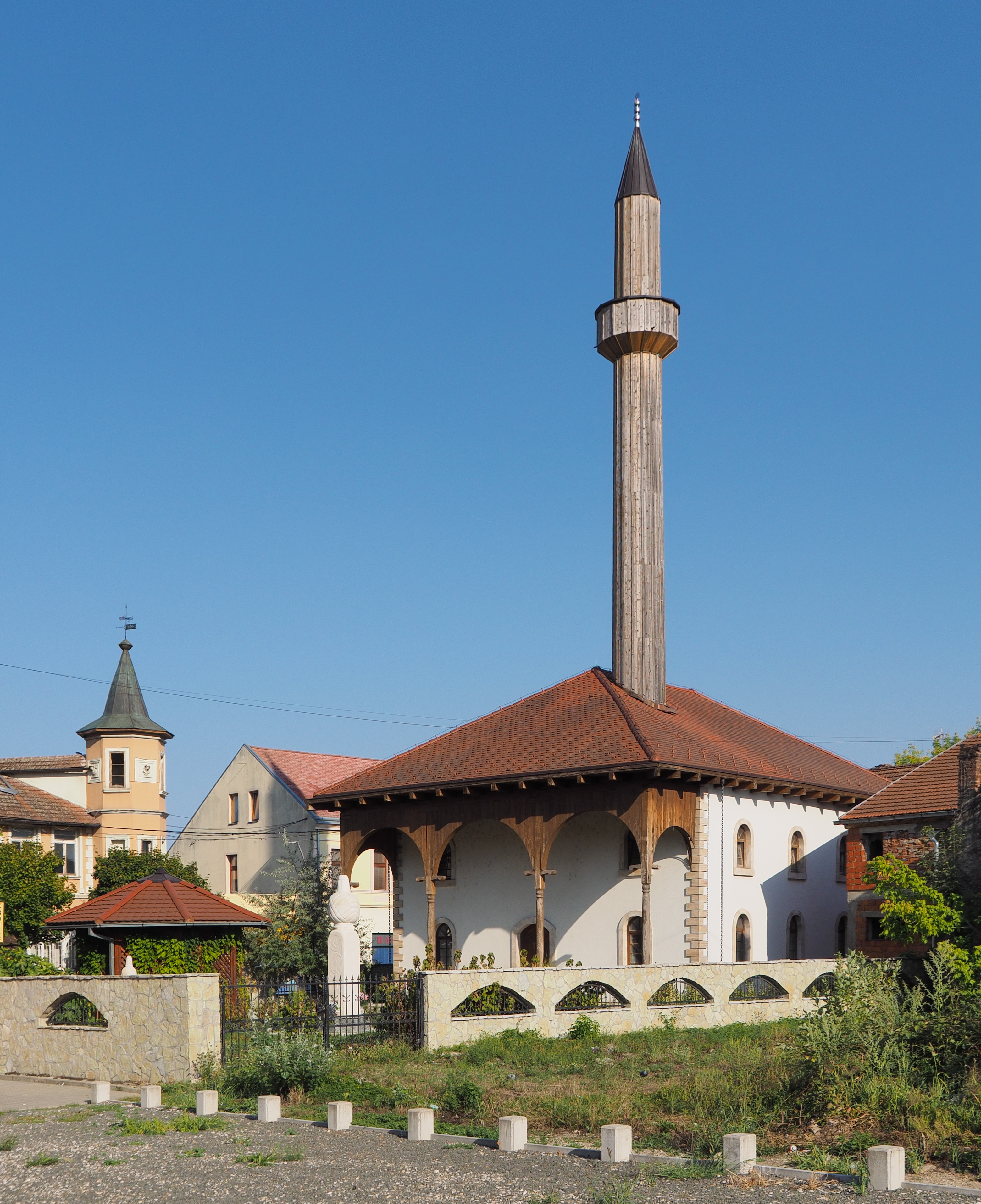 Mosque in Kozarska Dubica, Republika Srpska. Built in 17. century Српски (ћирилица): Градсја џамија у Козарској Дубици, Република Српска. Изграђена у 17. веку под Турцима, рушена 1992 и обновљена 2003. Харем Градске џамије у Козарској Дубици, Козарска Дубица ID добра: NKD408 This image was uploaded as part of Trace of Soul 2017. This photograph was taken with a Olympus E-M1.